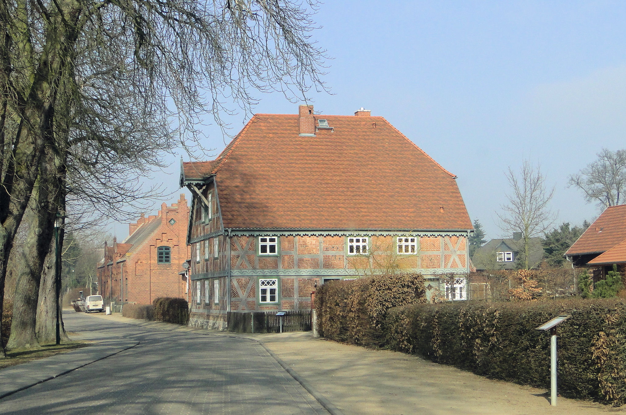 Seed house in Dobbertin, district Ludwigslust-Parchim, Mecklenburg-Vorpommern, Germany